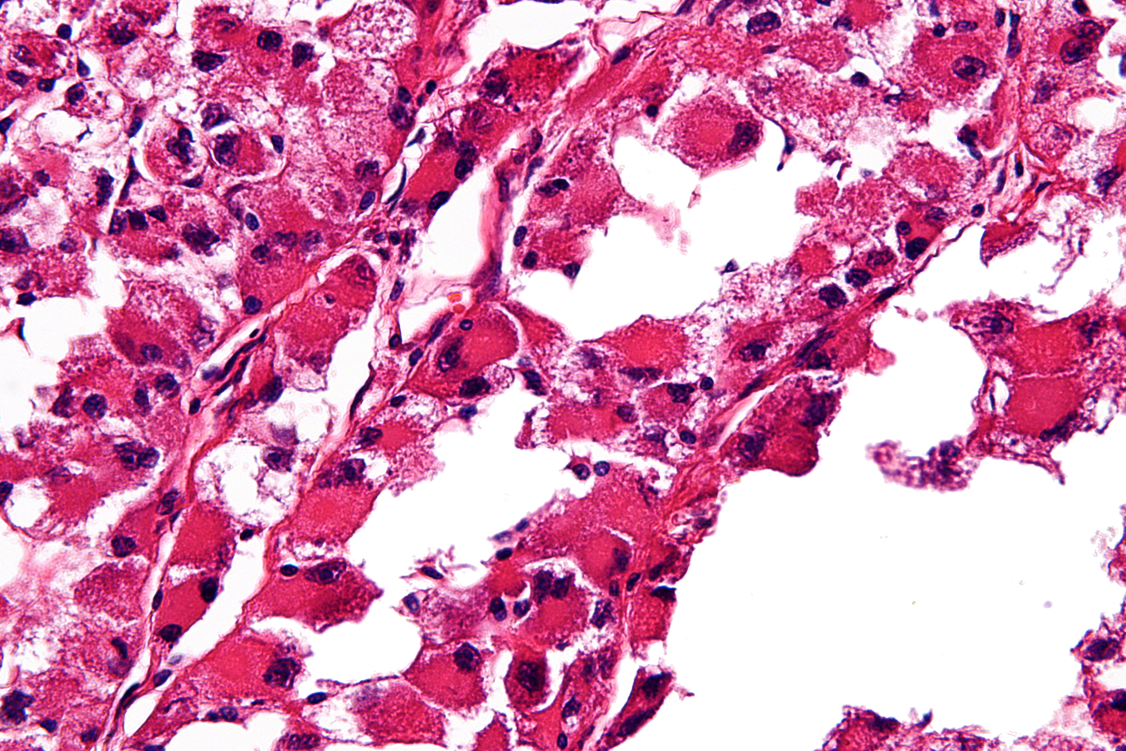 Very high magnification micrograph of an alveolar soft part sarcoma, commonly abbreviated ASPS. H&E stain. The images show characteristic features of ASPS: An alveolar/nested architecture. Cells with: Abundant eosinophilic cytoplasm. An eccentric nucleus. Calcification. Related images Very low mag. Low mag. Intermed. mag. High mag. Very high mag. Very high mag.